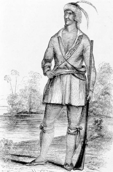 Thlocklo Tustenuggee, or Tiger Tail A Seminole's chief, from N. Orr's engraving in Sprague, John Titcomb, The origin, progress, and conclusion of the Florida war... New York, D. Appleton & Co.: Philadelphia, G.S. Appleton, 1848. p. 98. OCLC 1846069